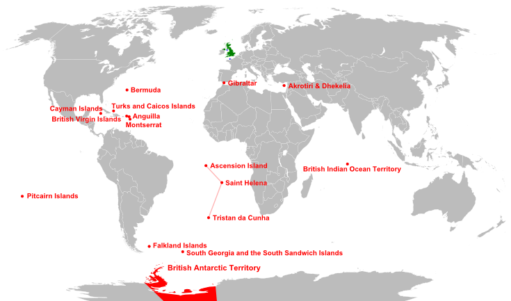 Location of the British Overseas Territories (red), Crown dependencies (blue), and Great Britain and Northern Ireland (green) Crown dependencies: 1. Isle of Man 2. Channel Islands